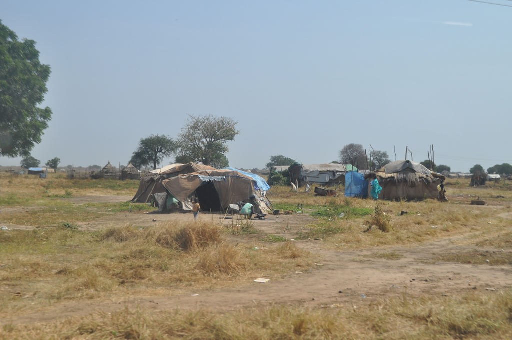 Dwellings in Abyei Town.